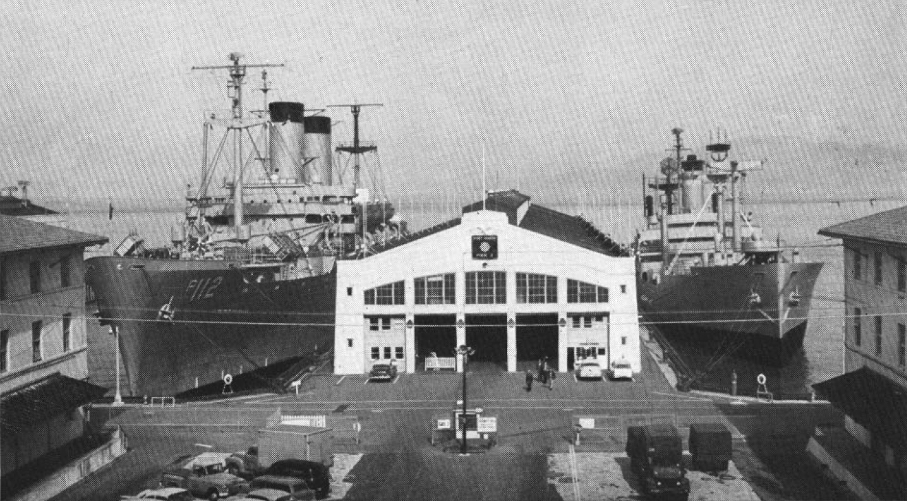 The U.S. Navy troop transport USS General W.A. Mann (AP-112), left, moors with the Military Sea Transportation Service missile tracking ship USNS Pvt. Joe E. Mann (T-AK-253), circa 1960. Pvt. Joe E. Mann was renamed USNS Richfield (T-AGM-4) on 27 November 1960.